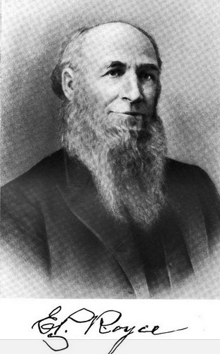 Eli Parsons Royce with his signature